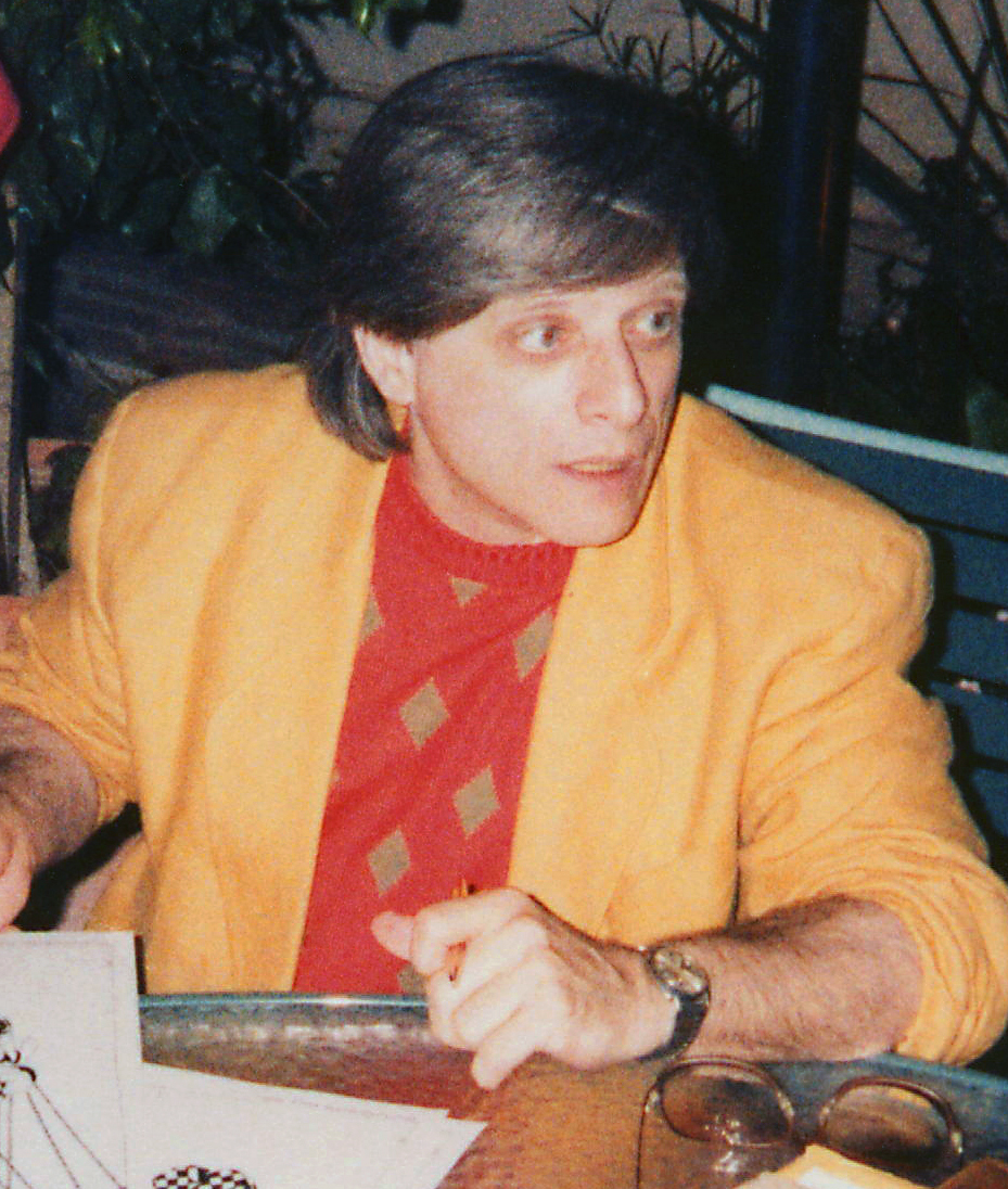 Harlan Ellison at the Harlan Ellison Roast. L.A. Press Club July 12, 1986. Los Angeles, California.